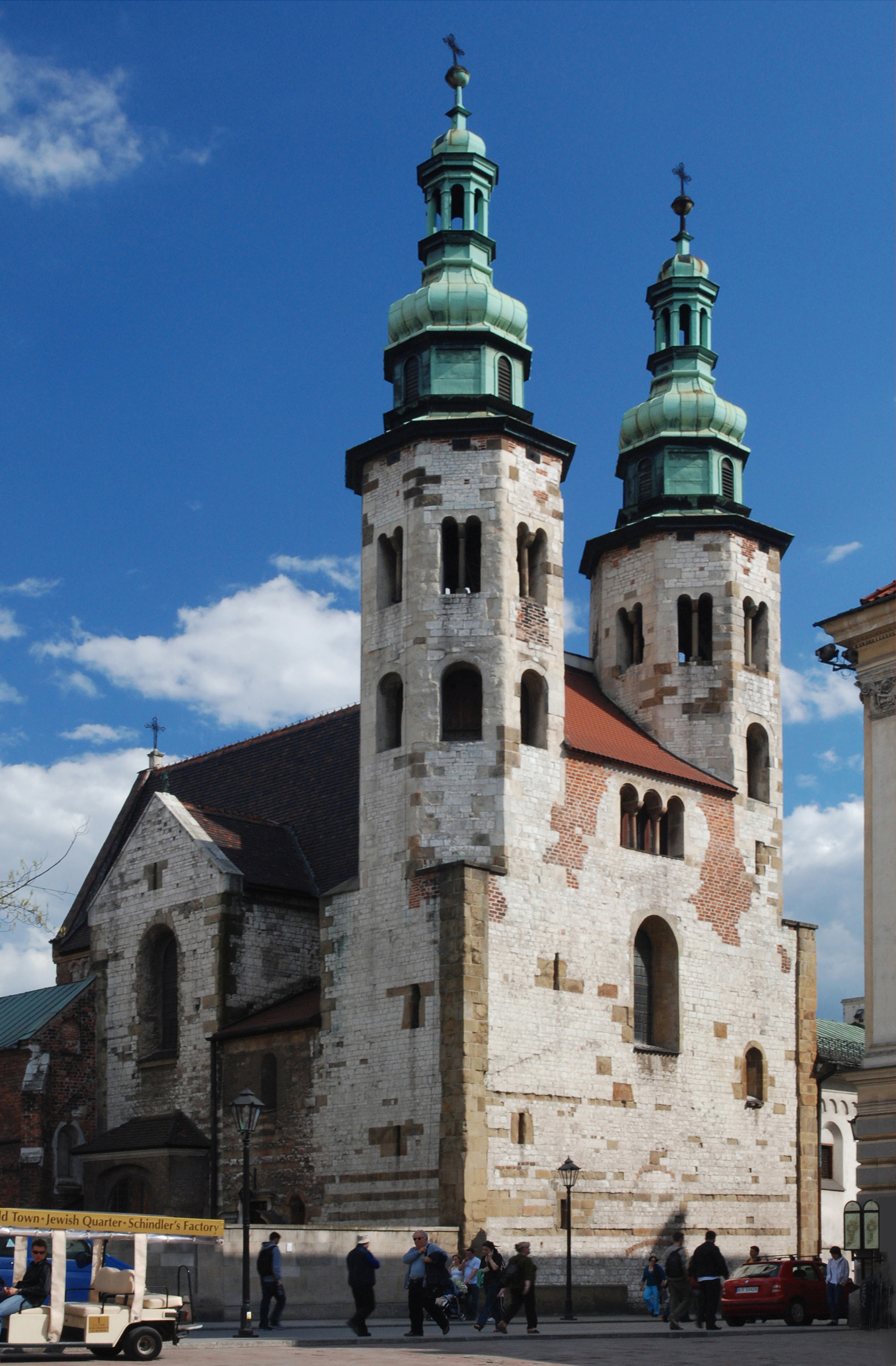 Church of Stn Andrew, Krakow, Poland.